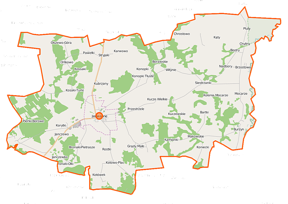 Map of Gmina Jedwabne, Poland This map of Jedwabne (gmina) was created from OpenStreetMap project data, collected by the community. This map may be incomplete, and may contain errors. Don't rely solely on it for navigation. Border coordinates53.360322.1985←↕→22.505453.2302